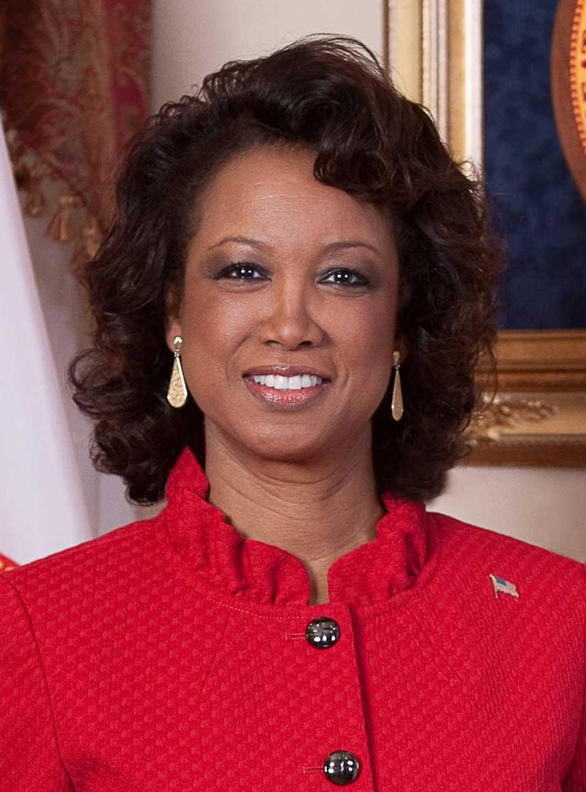 Jennifer Carroll, 18th Lieutenant Governor of Florida from January 2011 to March 2013.